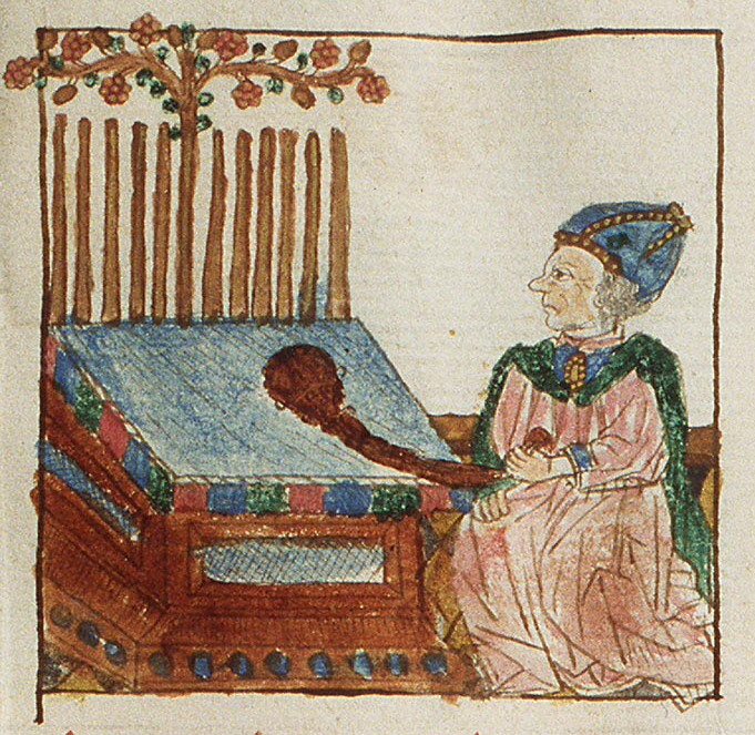 Aaron's flowering rod, by the illustrator of 'Speculum humanae salvationis', Cologne, circa 1450, colored pendrawing, at the Museum Meermanno Westreenianum, The Hague, manuscript "Den Haag, MMW, 10 B 34"